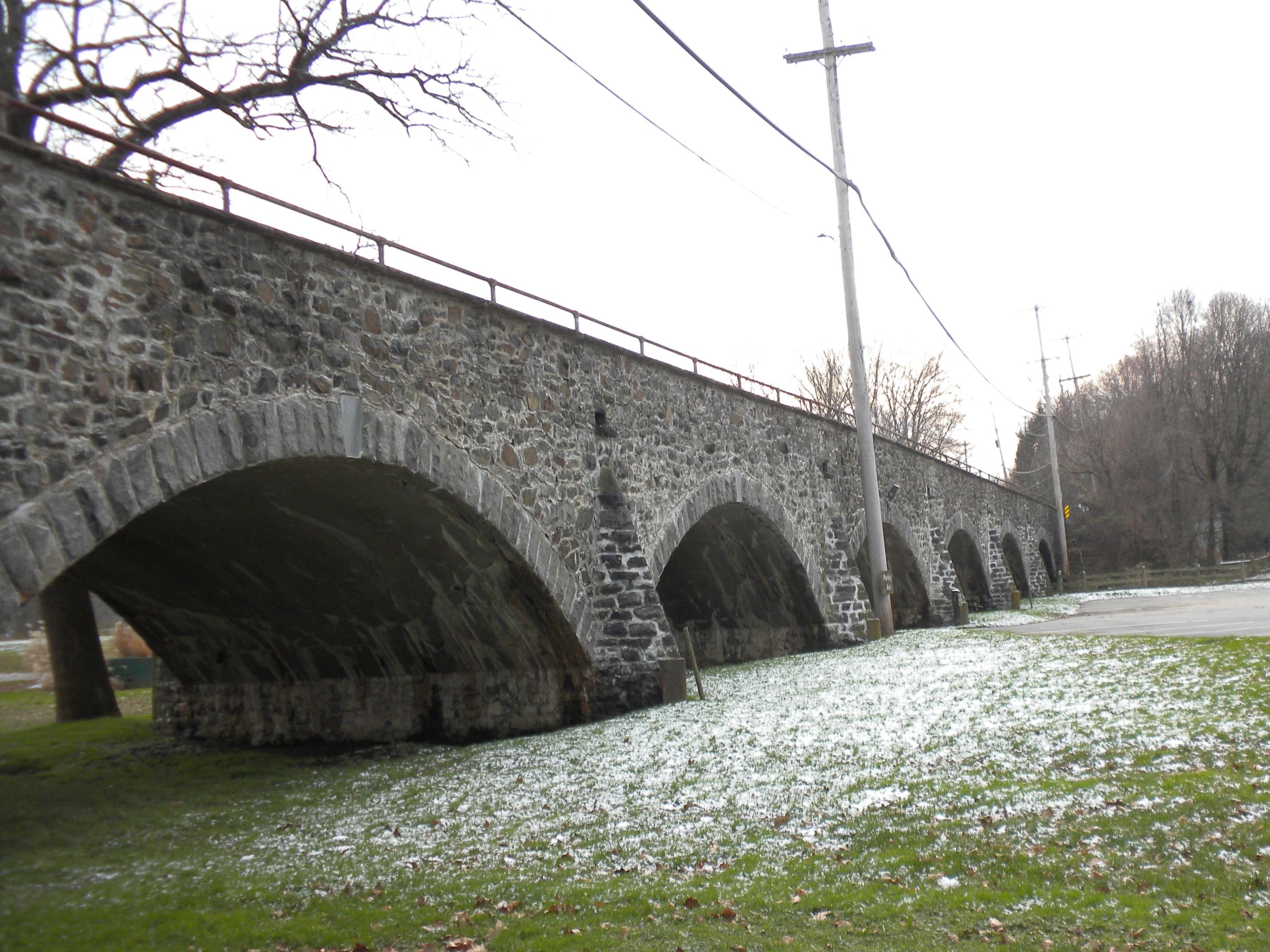 Lenape Bridge across the Brandywine in Chester County, PA. On NRHP.